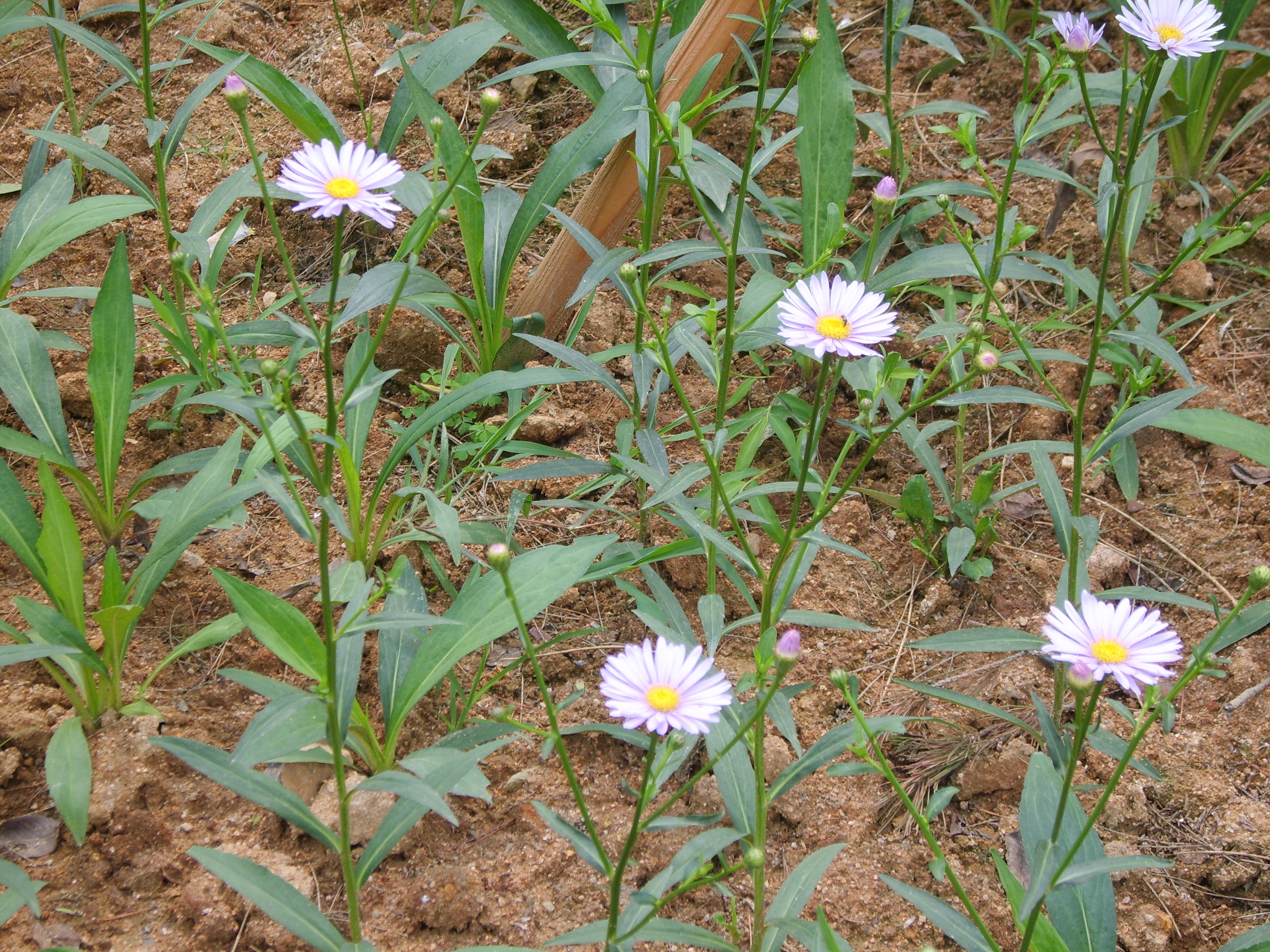 Aster koraiensis in Bupyung, Korea